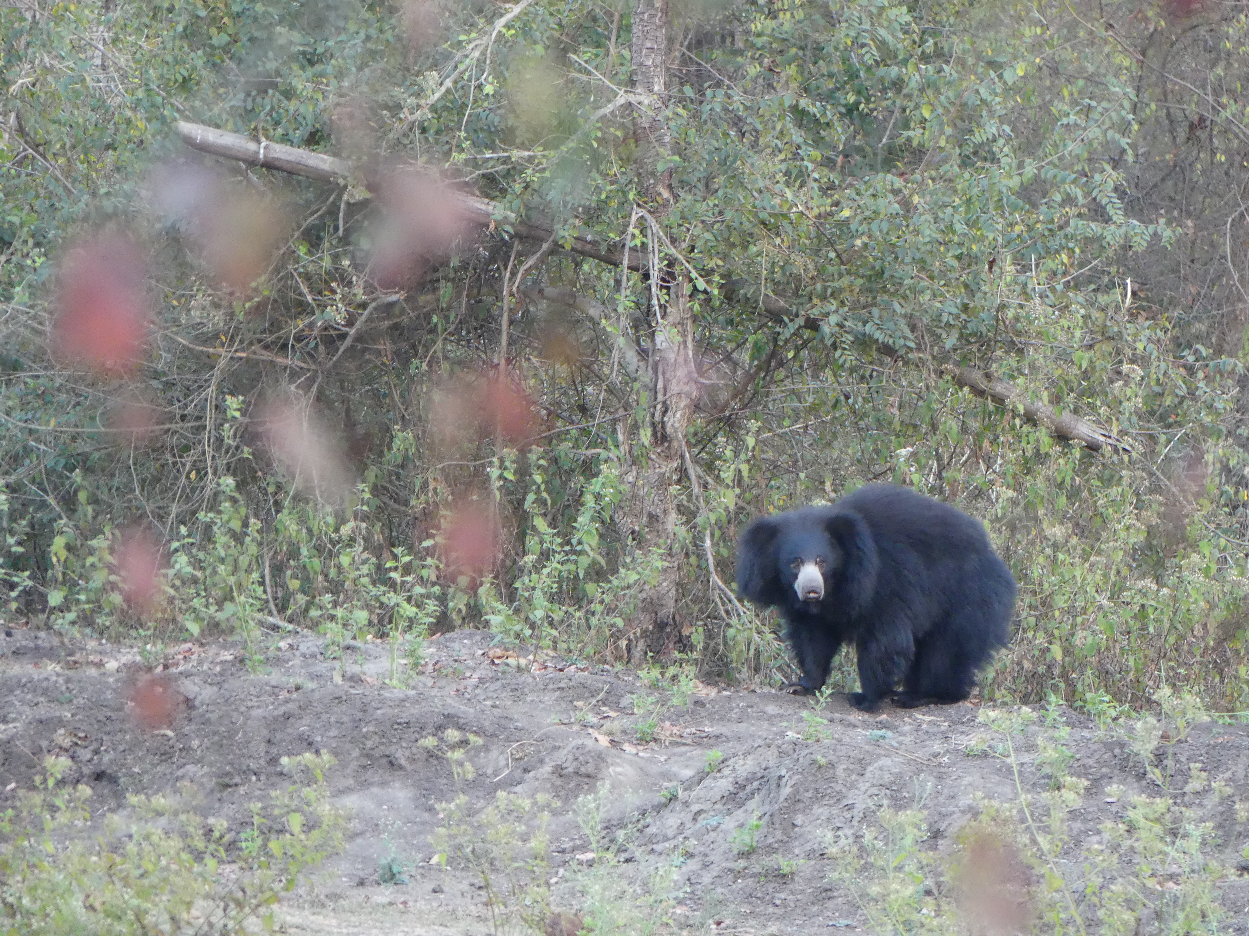 Sloth bear